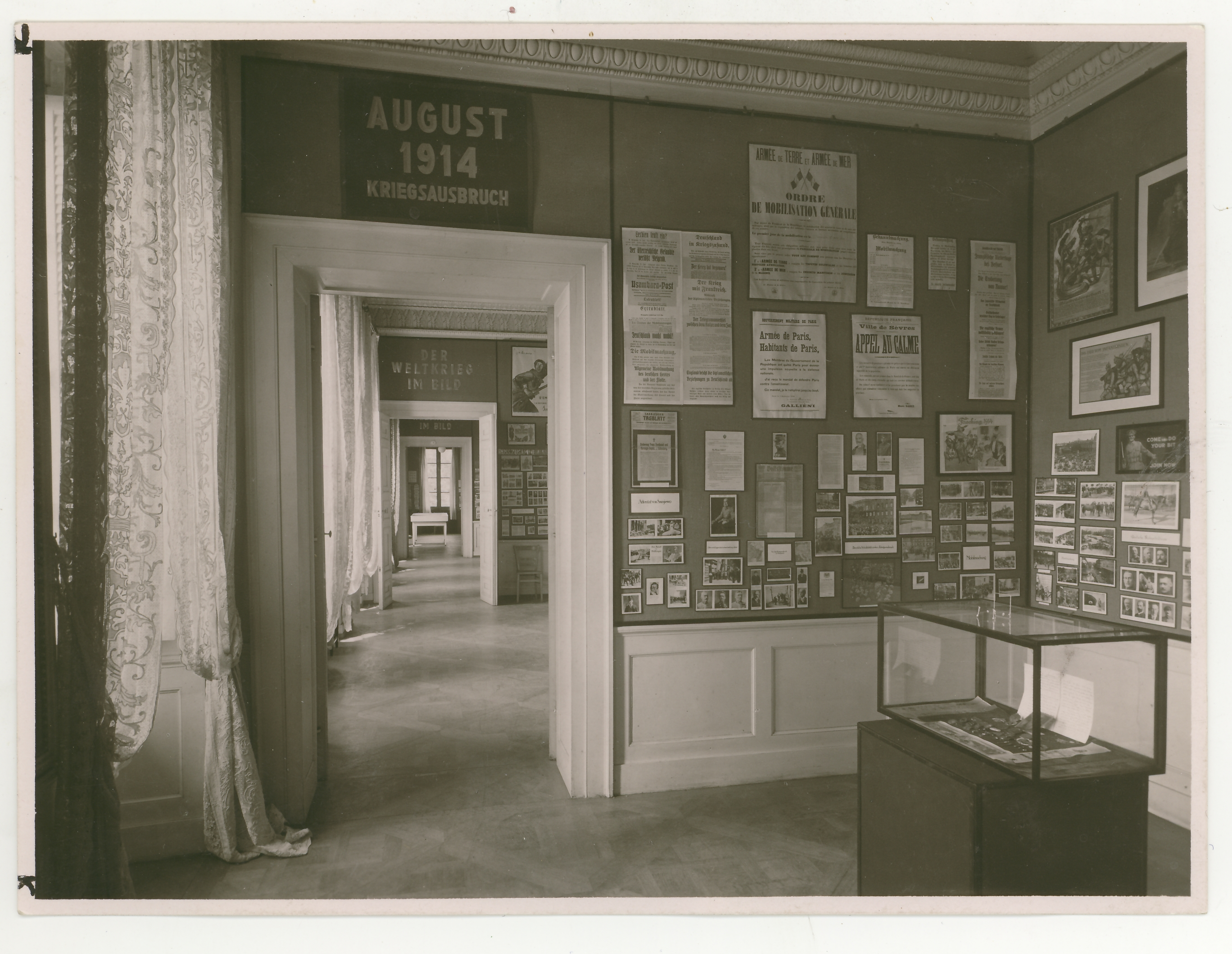 Picture shows a propaganda exhibition on World War I in the Weltkriegsmuseum, Schloss Rosenstein in Stuttgart, Germany (ca. 1933)